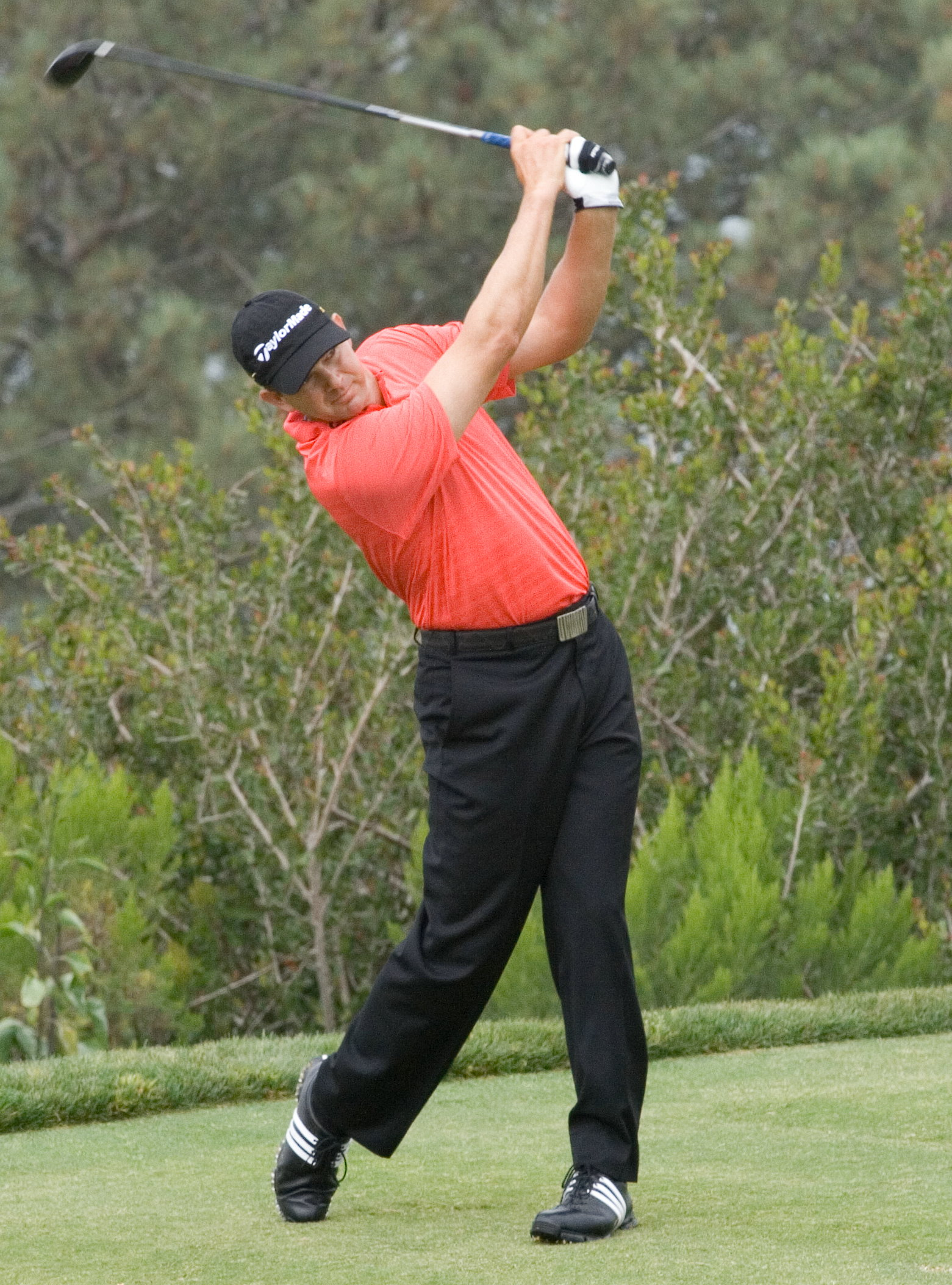 The South African professional golfer Retief Goosen